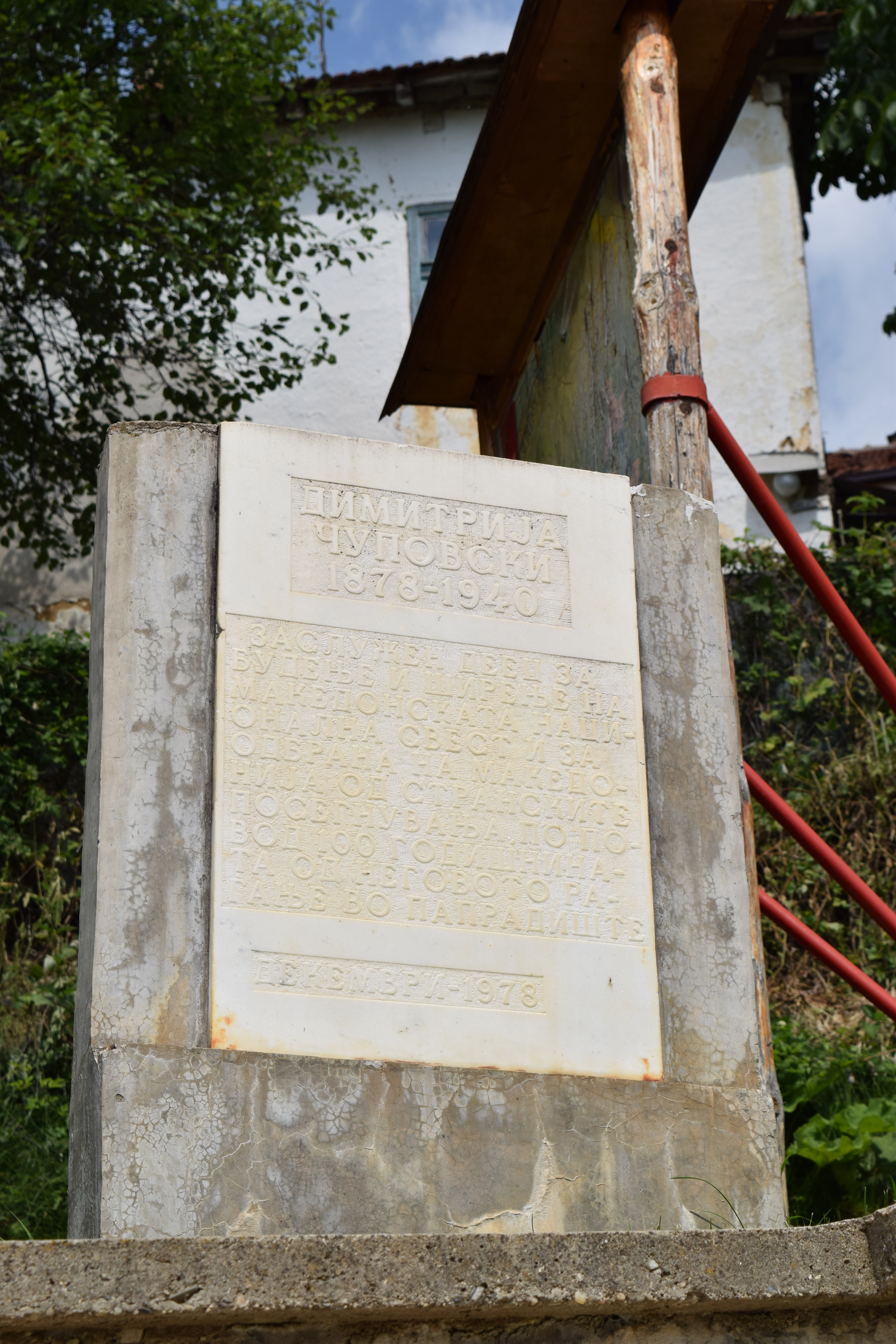 Monument in the village Papradište